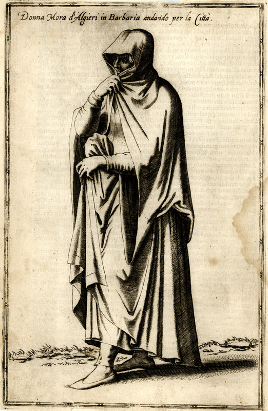 Nicolas de Nicolay. Le Navigationi et viaggi, fatti nella Turchia. Novamente tradotto di Francese in Italiano da Francesco Flori da Lilla, Aritmetico, Venice, Francesco Ziletti, 1580.